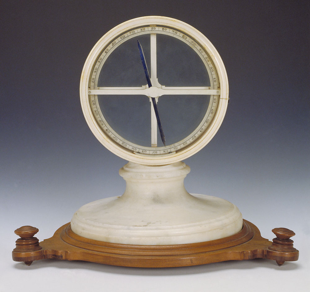 AuthorUnknownDescription